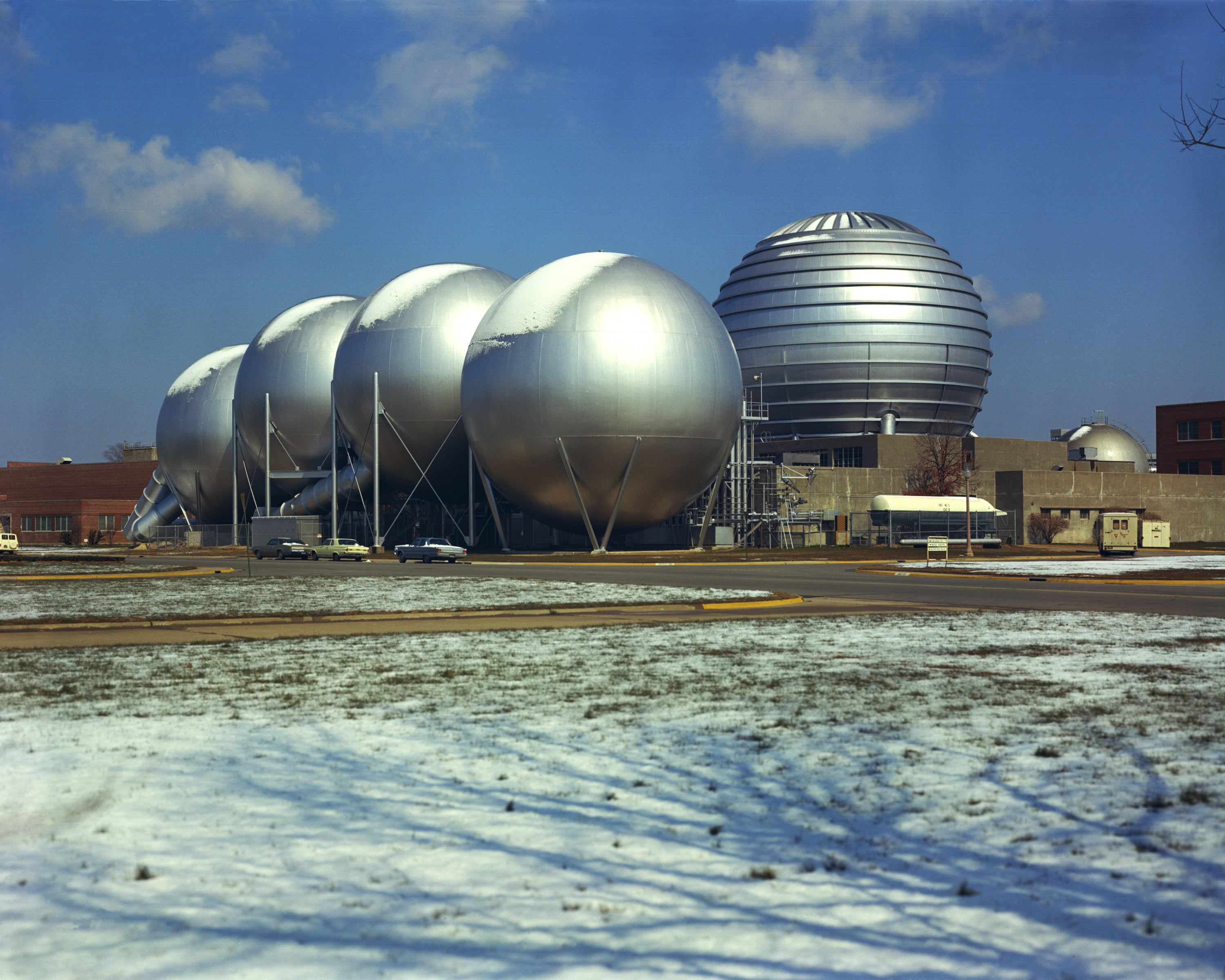 Spheres housing wind tunnels that were part of NASA Langley's Hypersonic Facilities Complex.